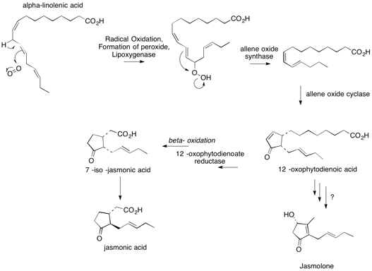 Synthetic Synthesis of Jasmolone